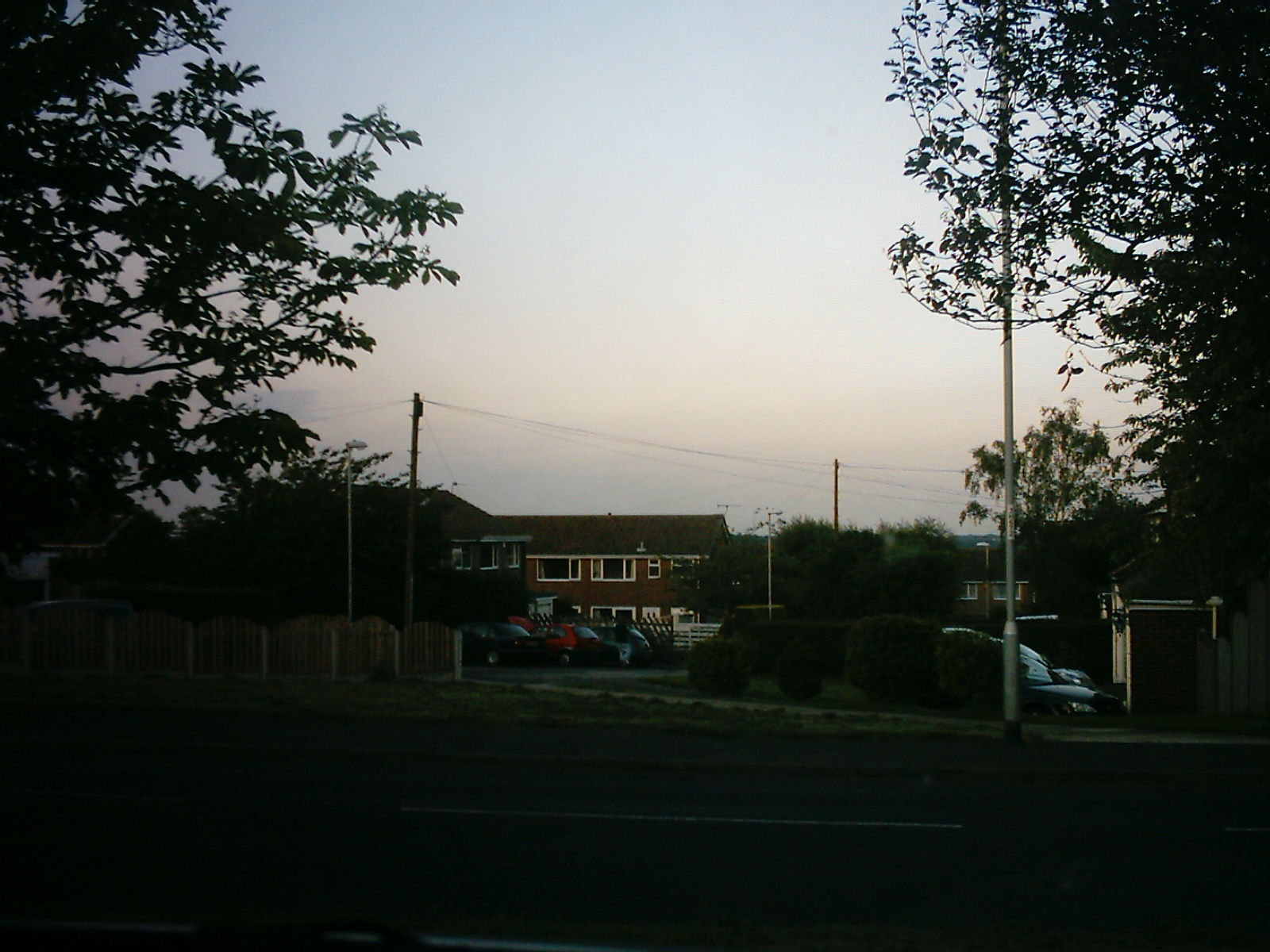 1960s/70s private houses in Holt Park built by Ashtons.